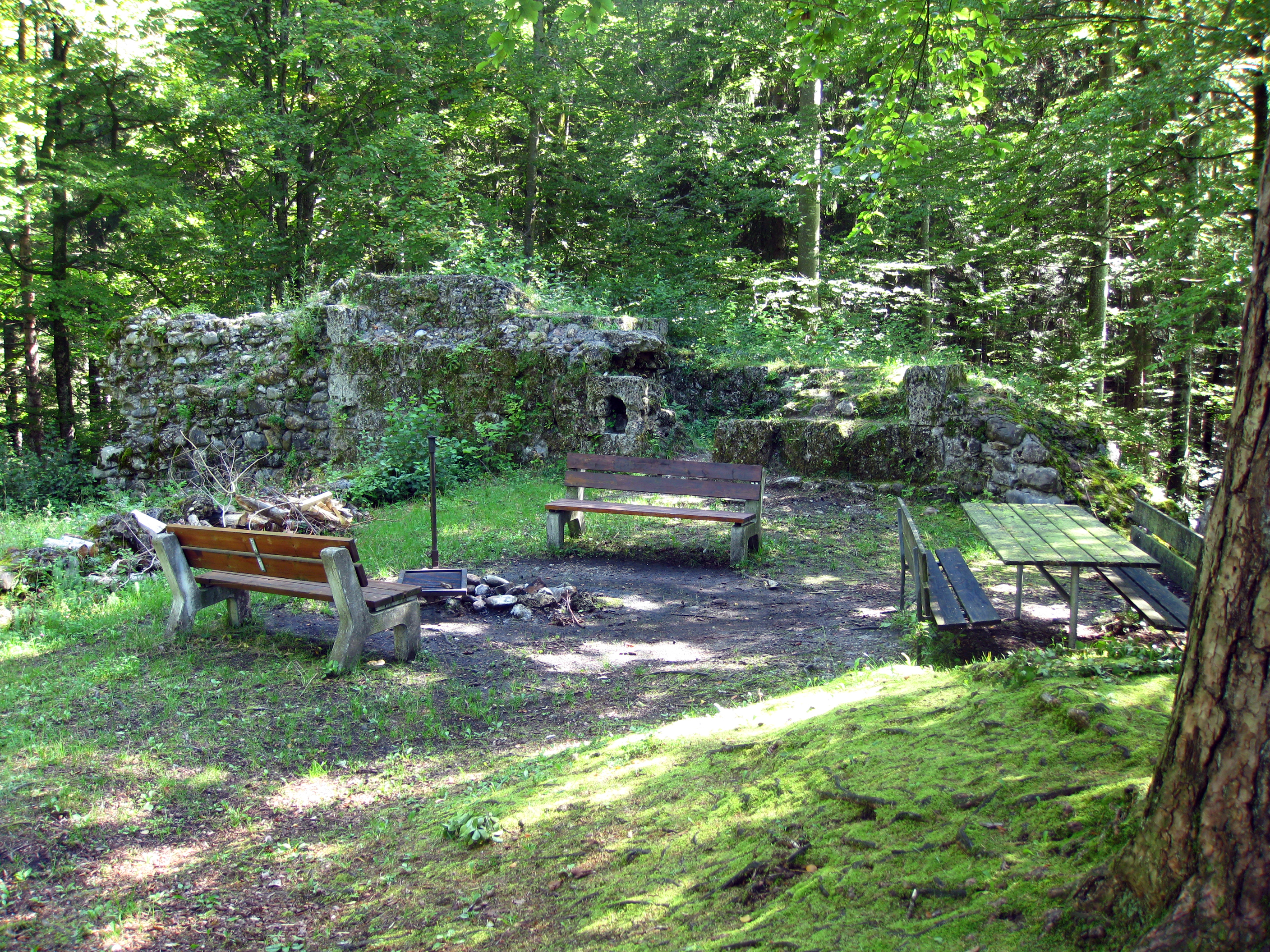 View to the Ruin Ruedberg